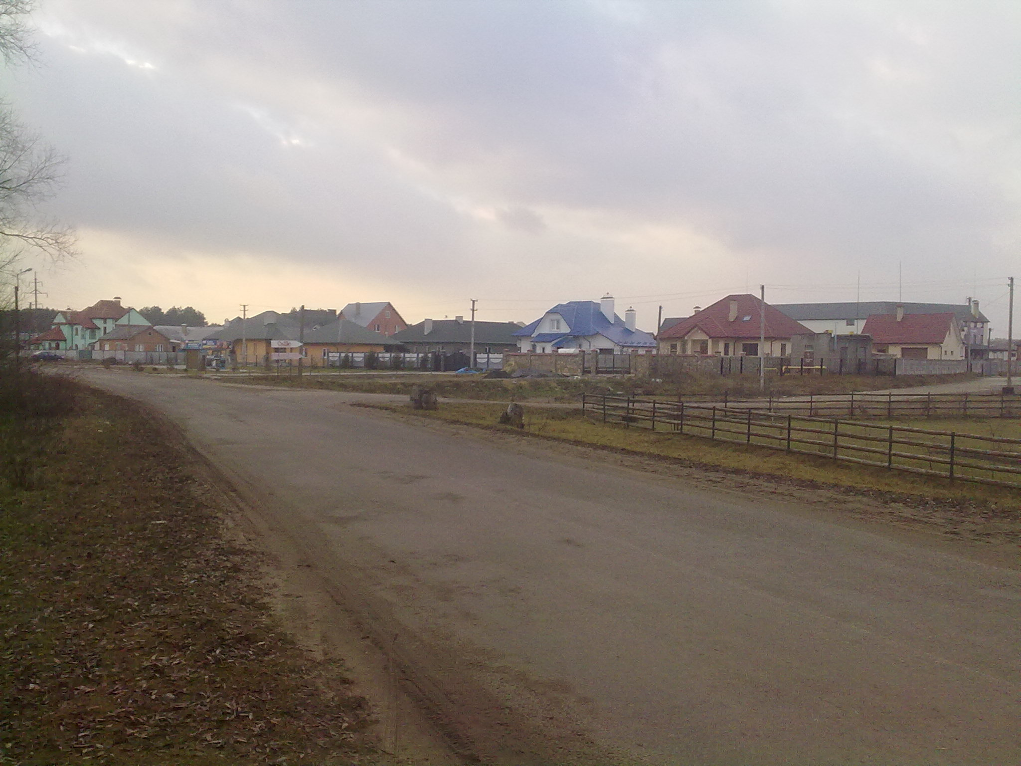 South quarter, village Volia-Kovelska. Kovel raion. Volyn oblast. Ukraine.